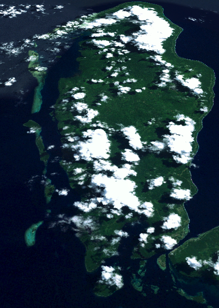 NASA World Wind image of Buka Island.